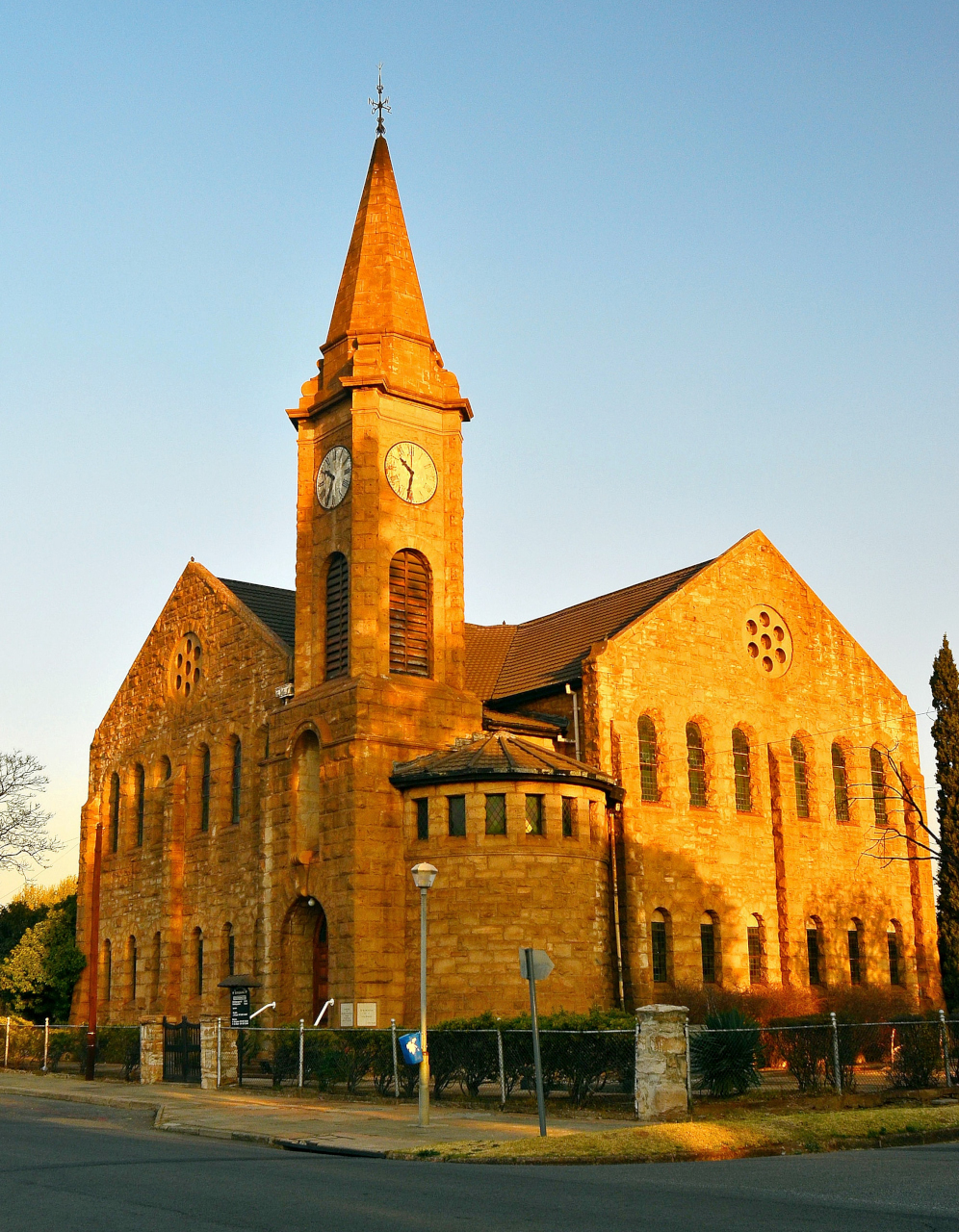 Dutch Reformed Church in Boksburg, Gauteng, South Africa